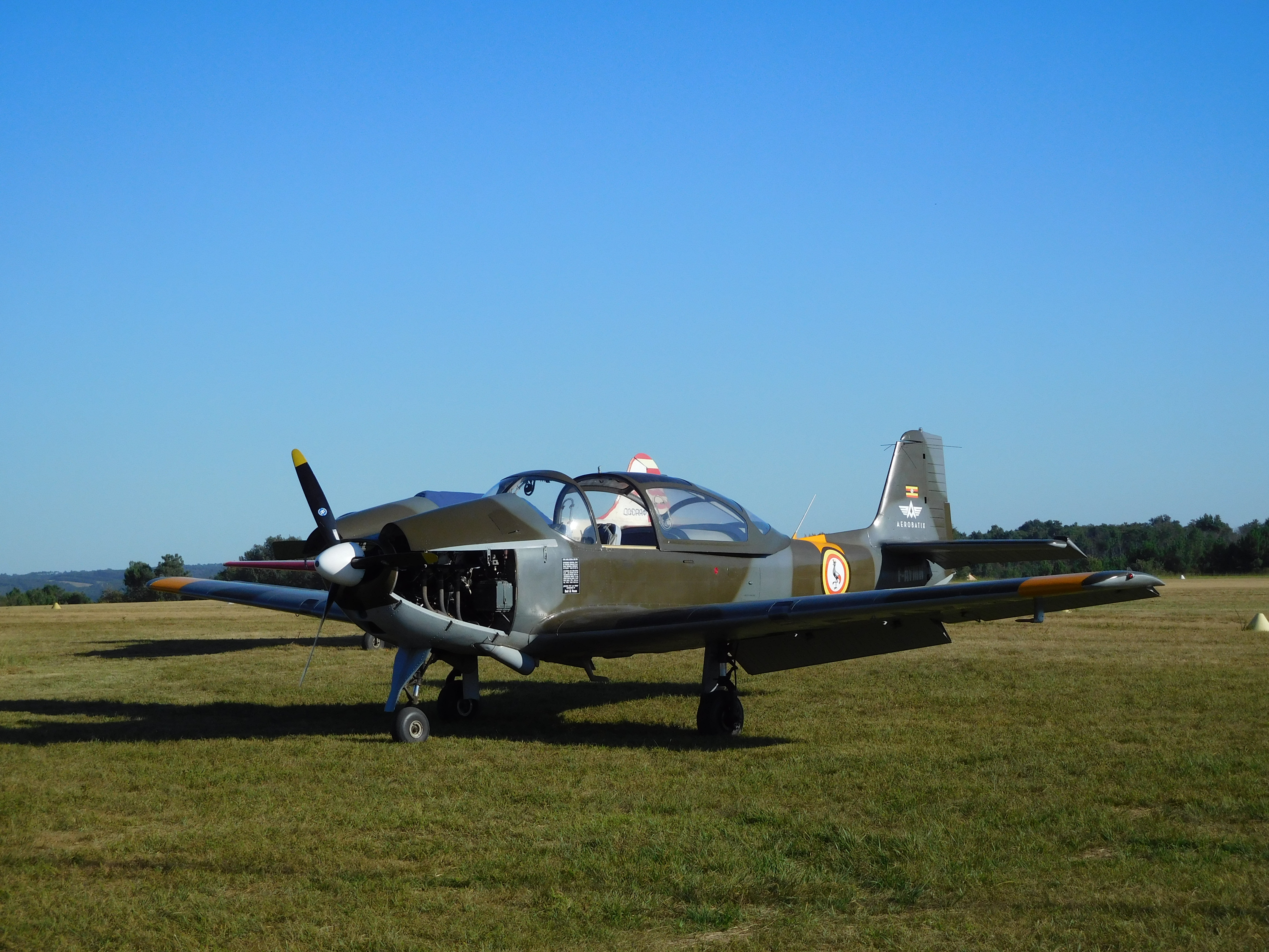 Piaggio FWP-149D, F-AYMH, c/n 26, 2016 Belvès air show (Dordogne, France).